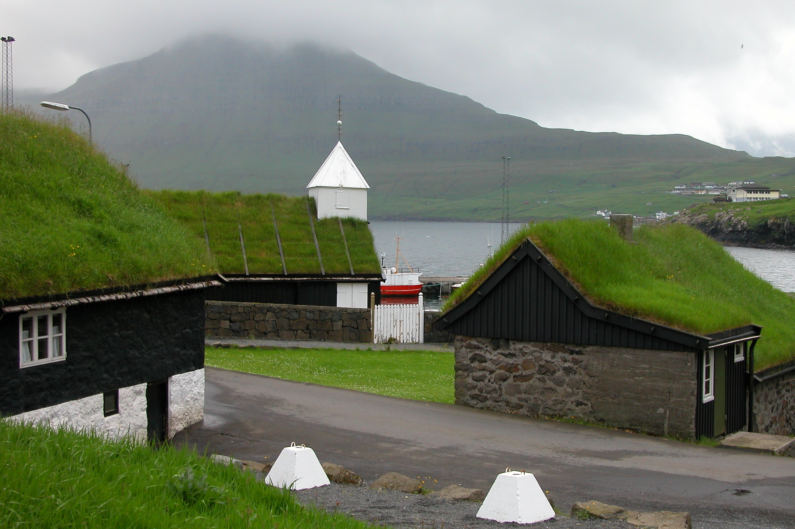 Traditionnal buildings with green roofs at Norðragøta on Eysturoy, Faroe Islands